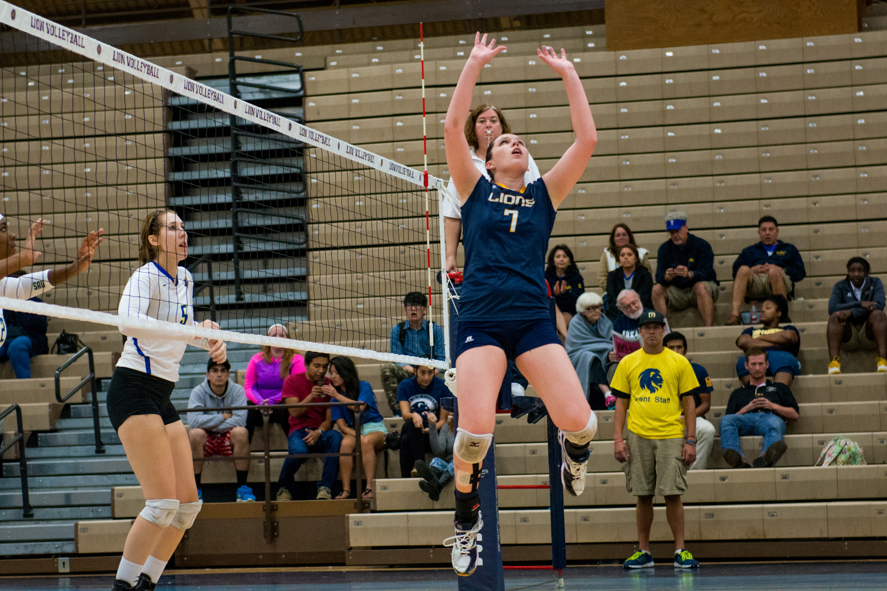 Athletics-Volleyball vs SAU-5105.jpg 2014–15 Texas A&M–Commerce Lions women's volleyball team